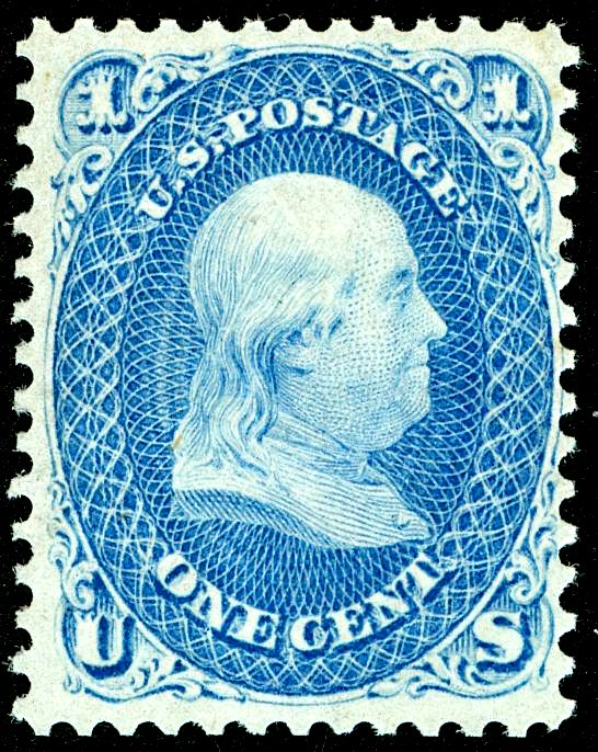 US Postage stamp: Benjamin Franklin, 1861 Issue, 'one cent', blue